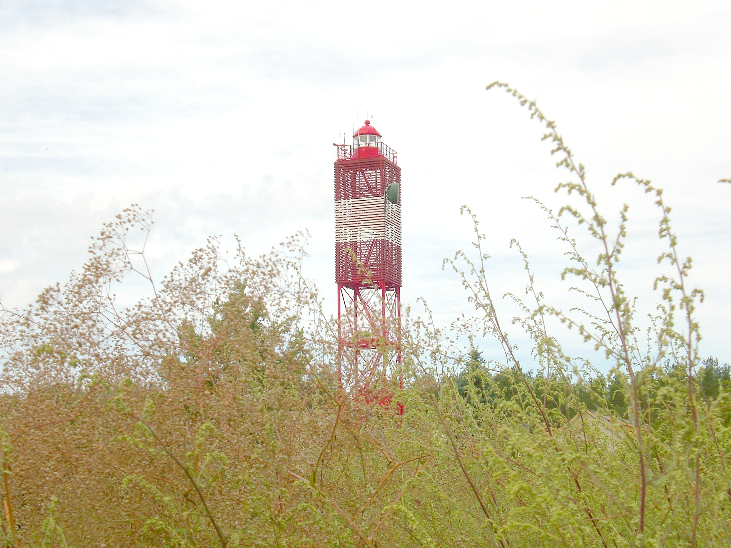 The lighthouse in the Baltic Sea resort Šventoji, 10 north of Palanga in Lithuania